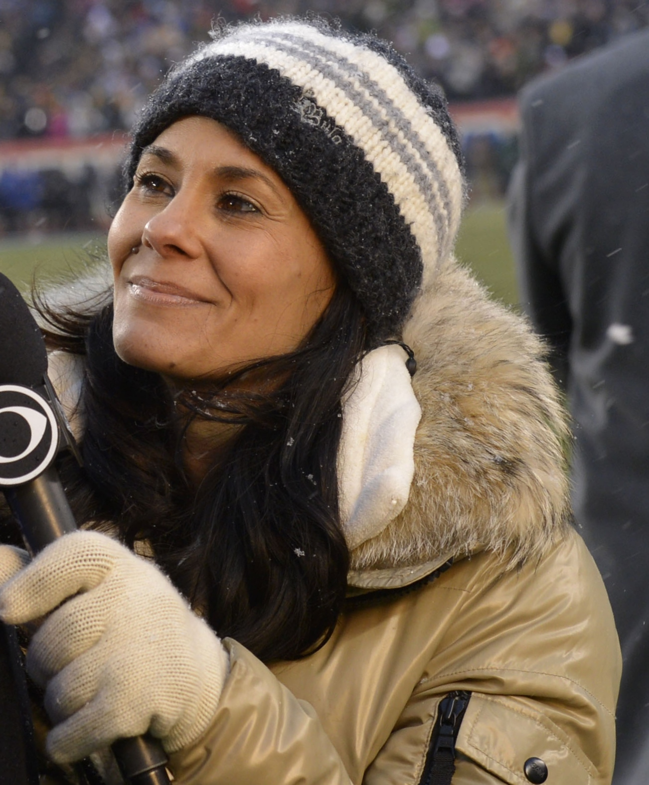 Secretary of Defense Chuck Hagel is interviewed by a CBS reporter [Tracy Wolfson] at the U.S. Army vs. Navy game in Philadelphia. (DOD Photo By Glenn Fawcett/Released)